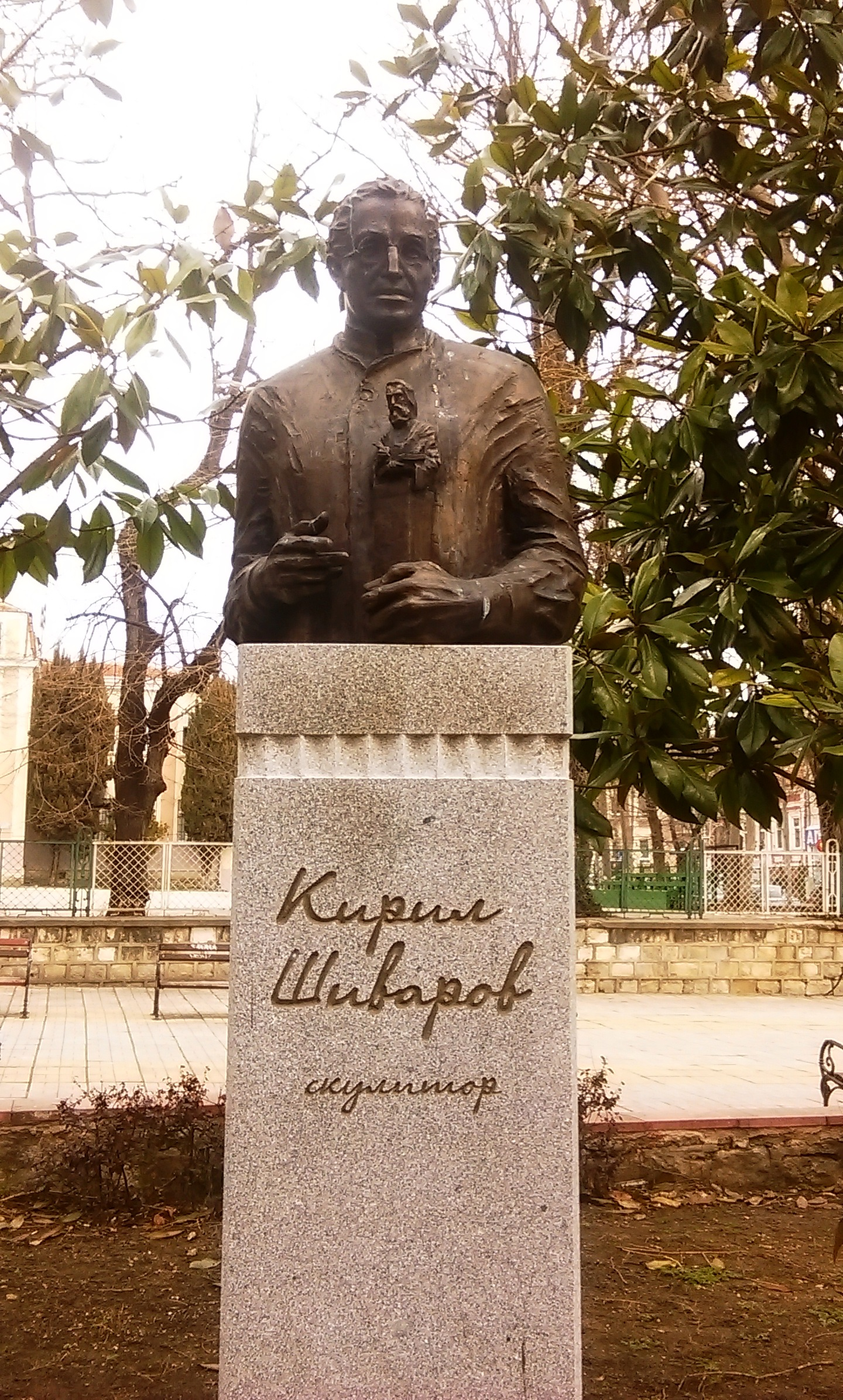 A statue of the bulgarian sculptor Kiril Shivarov in Varna, Bulgaria